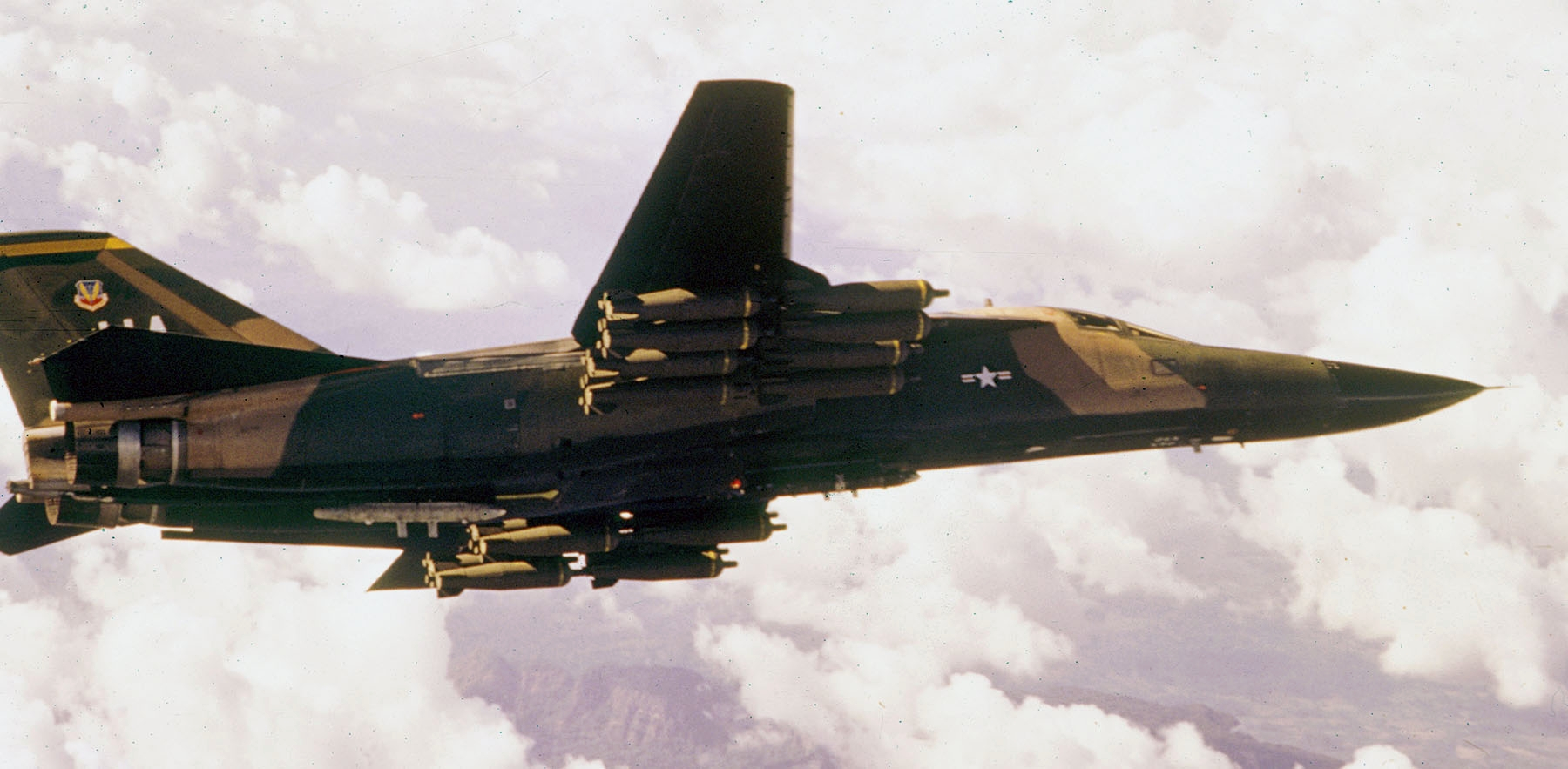 A U.S. Air Force General Dynamics F-111A from the 428th Tactical Fighter Squadron with a full load of 16 cluster bombs. Note the AN/ALQ-72 ECM pod.